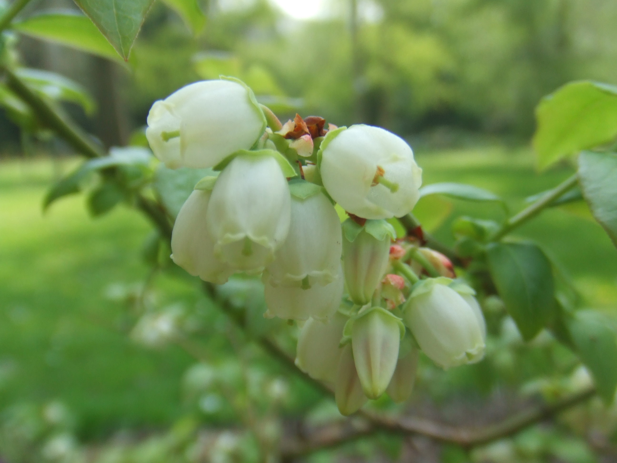 Vaccinium corymbosum, picture taken at the Botanische Tuin TU Delft in Delft, The Netherlands